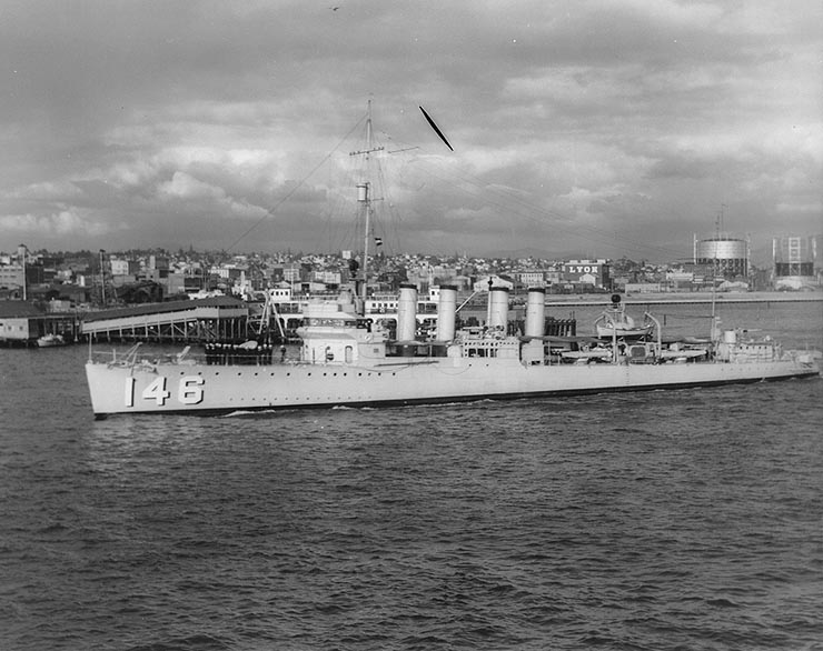 The U.S. Navy destroyer USS Elliot (DD-146) underway in San Diego harbor, California (USA), 17 April 1933.